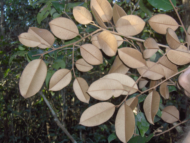 Found in Everglades National Park